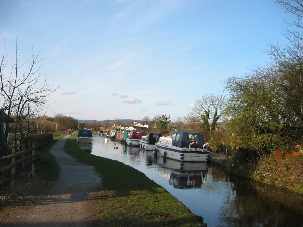 Lancaster Canal